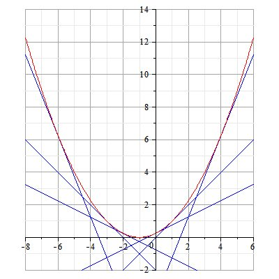 Example of the solution of the Clairaut equation y = xy' + (y'-y'.y')